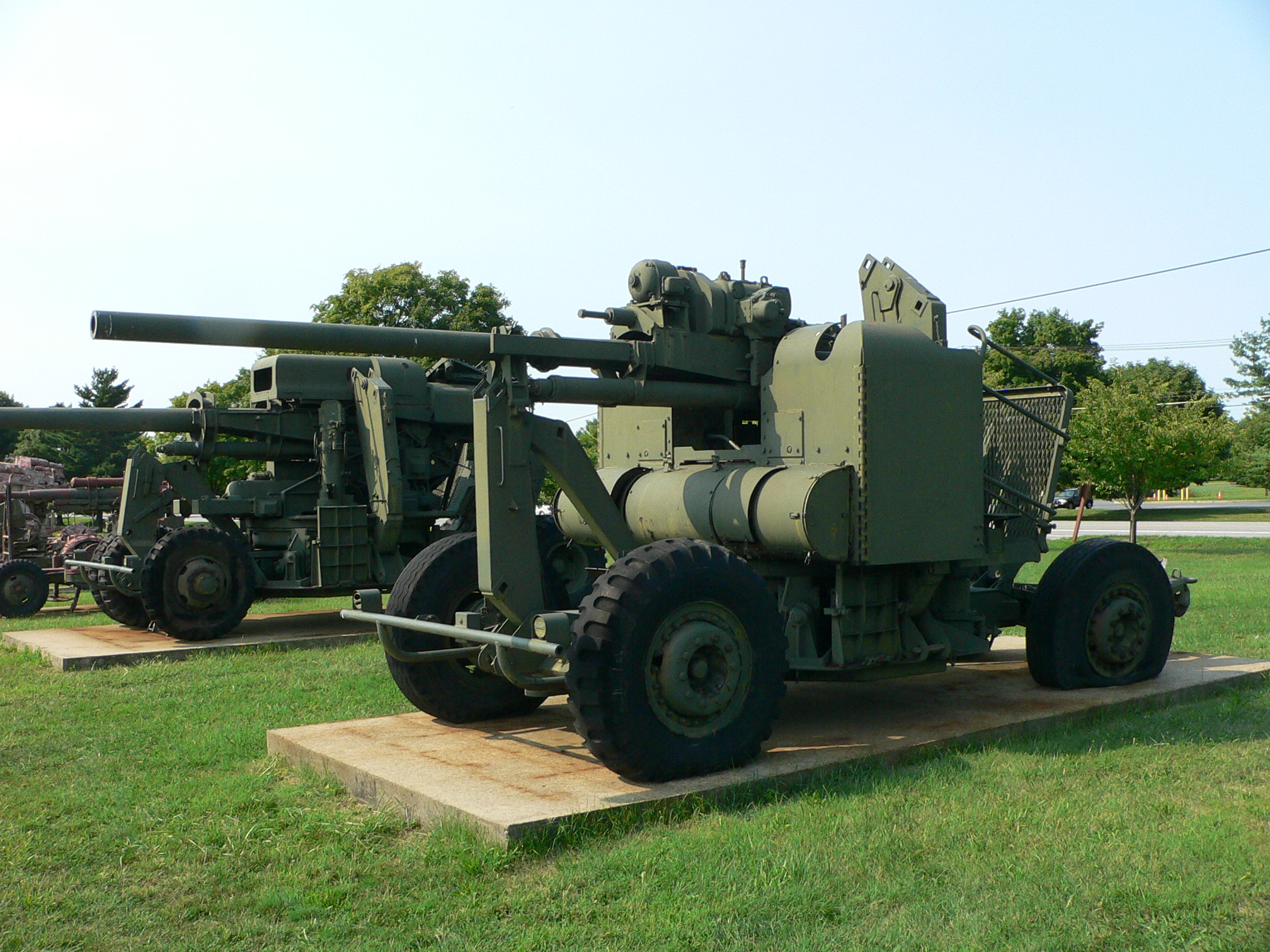 Picture taken by myself, Mark Pellegrini, at the United States Army Ordnance Museum (Aberdeen Proving Ground, MD) on August 14, 2007.